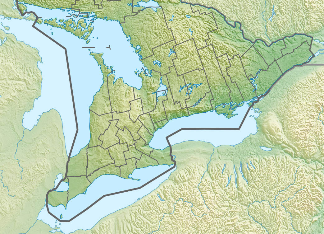 Physical location map of Ontario, Canada Equirectangular projection, N/S stretching 155 %. Geographic limits of the map: N: 46.4° N S: 41.4° N W: 84.7° W E: 74.0° W